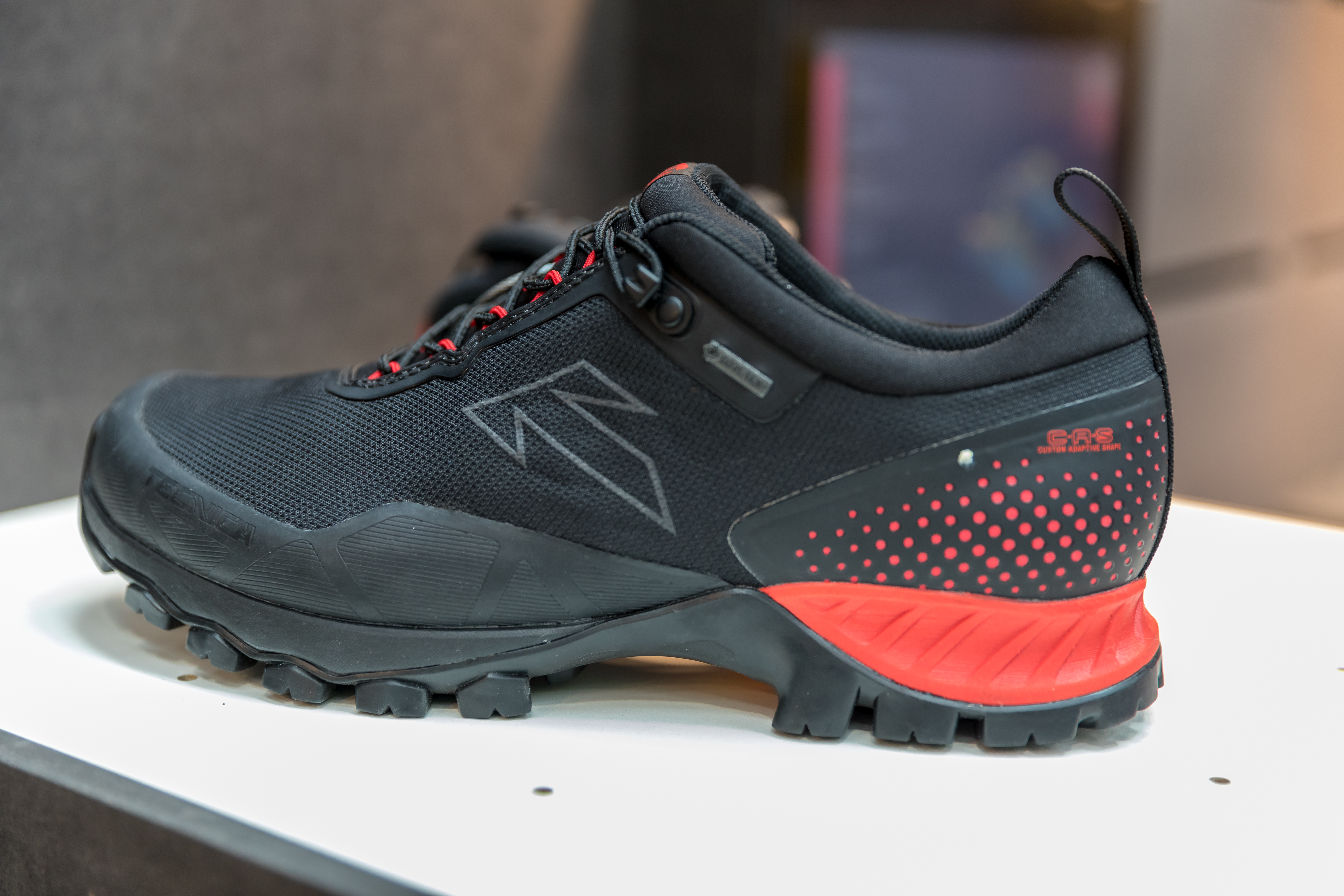 OutDoor 2018